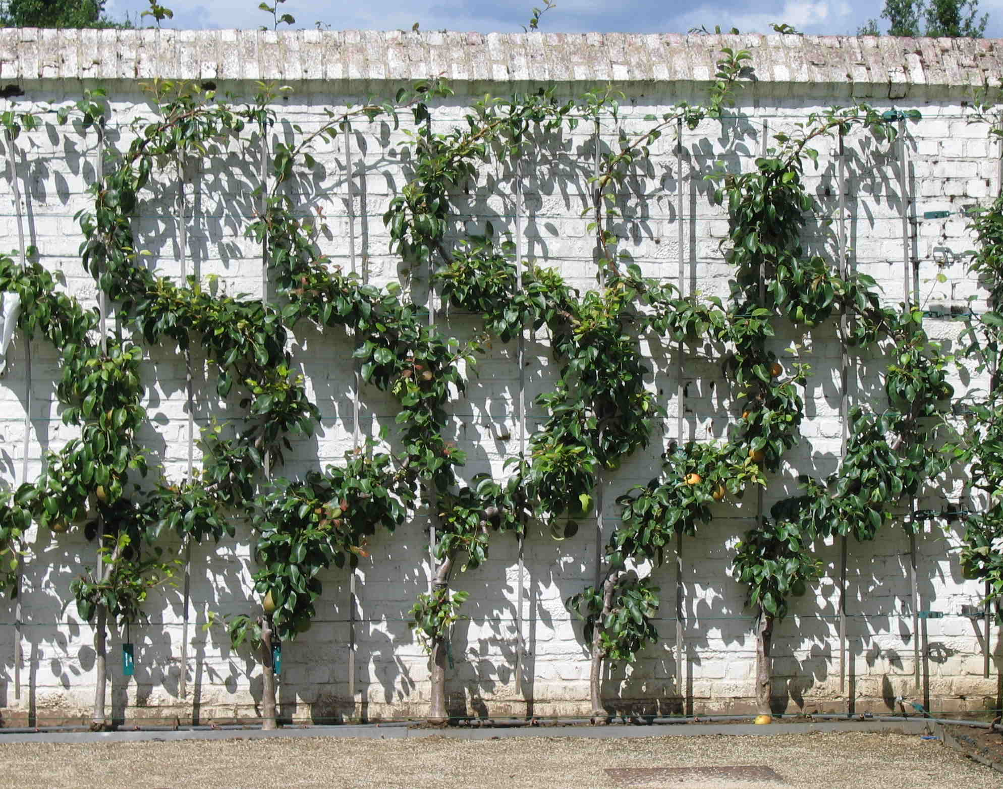 A picture of the s-shaped cordon fruittreeform. The picture was taken at a fruittreeform-test site near the castle of Gaasbeek.